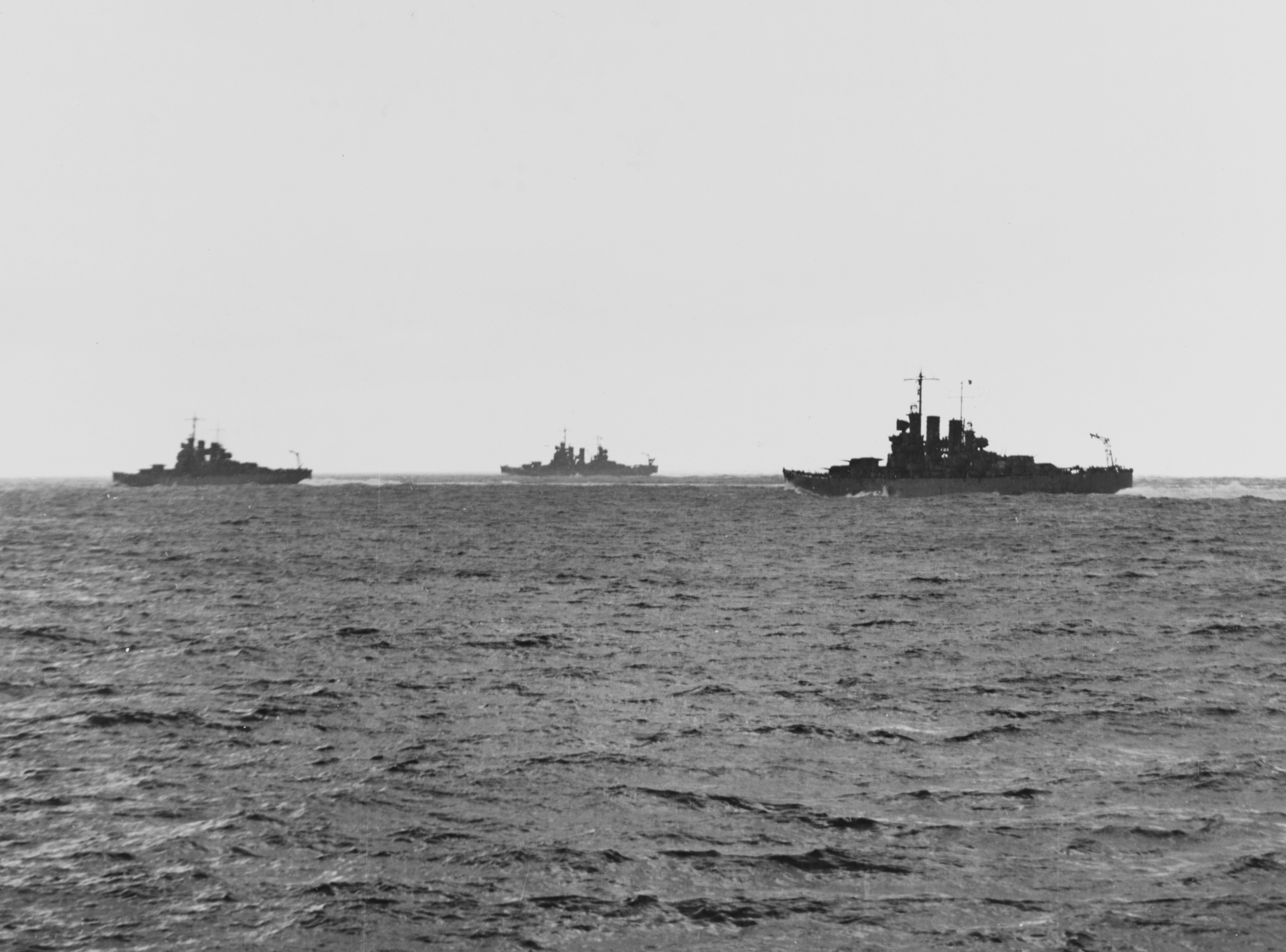 The U.S. Navy light cruisers USS St. Louis (CL-49), USS Honolulu (CL-48) and USS Helena (CL-50), left to right, maneuvering off Espiritu Santo, New Hebrides, during exercises on 20 June 1943, ten days before the invasion of New Georgia.